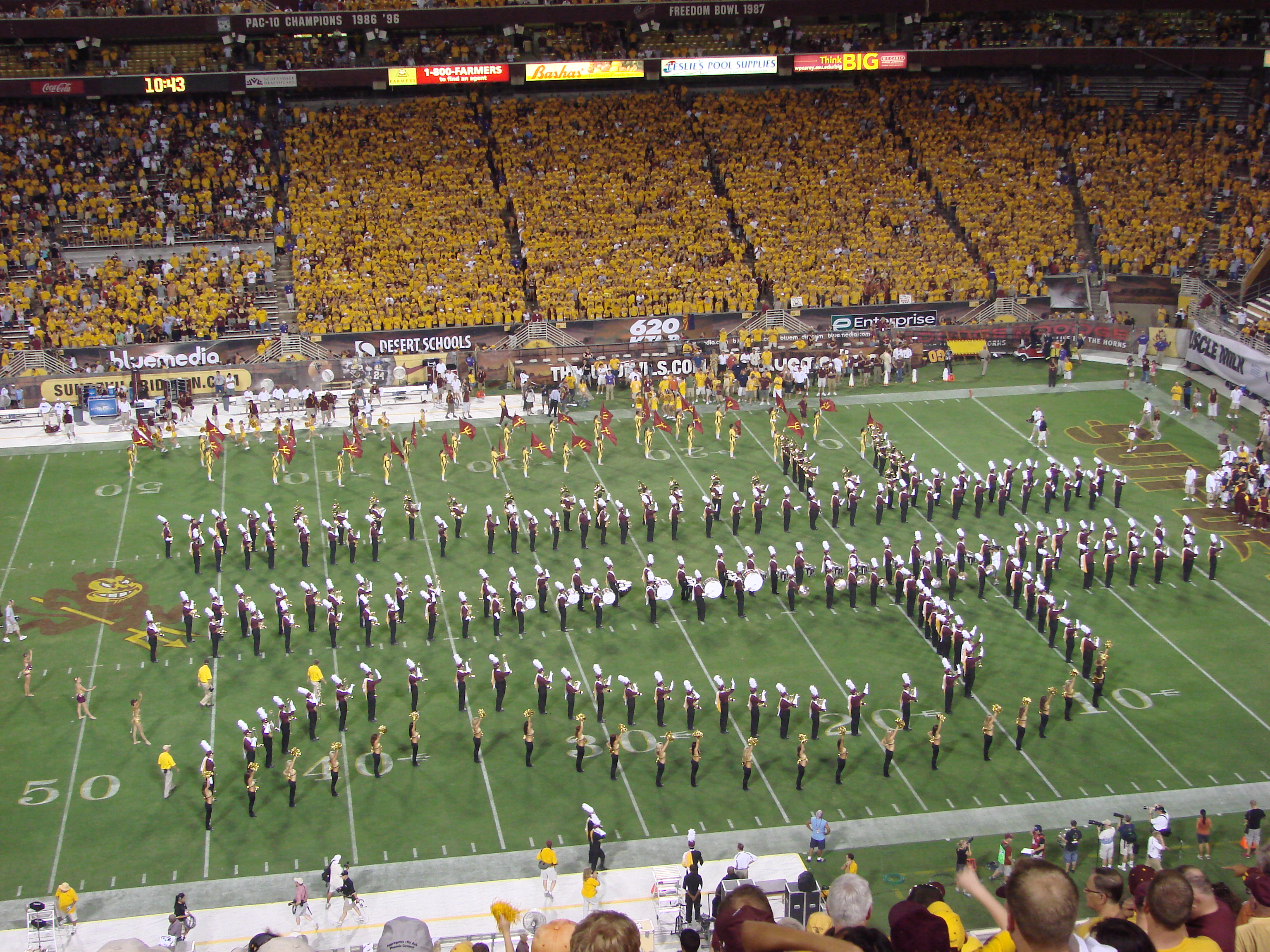 SDMB Drill Formation of a Pitchfork during Pregame 2007.